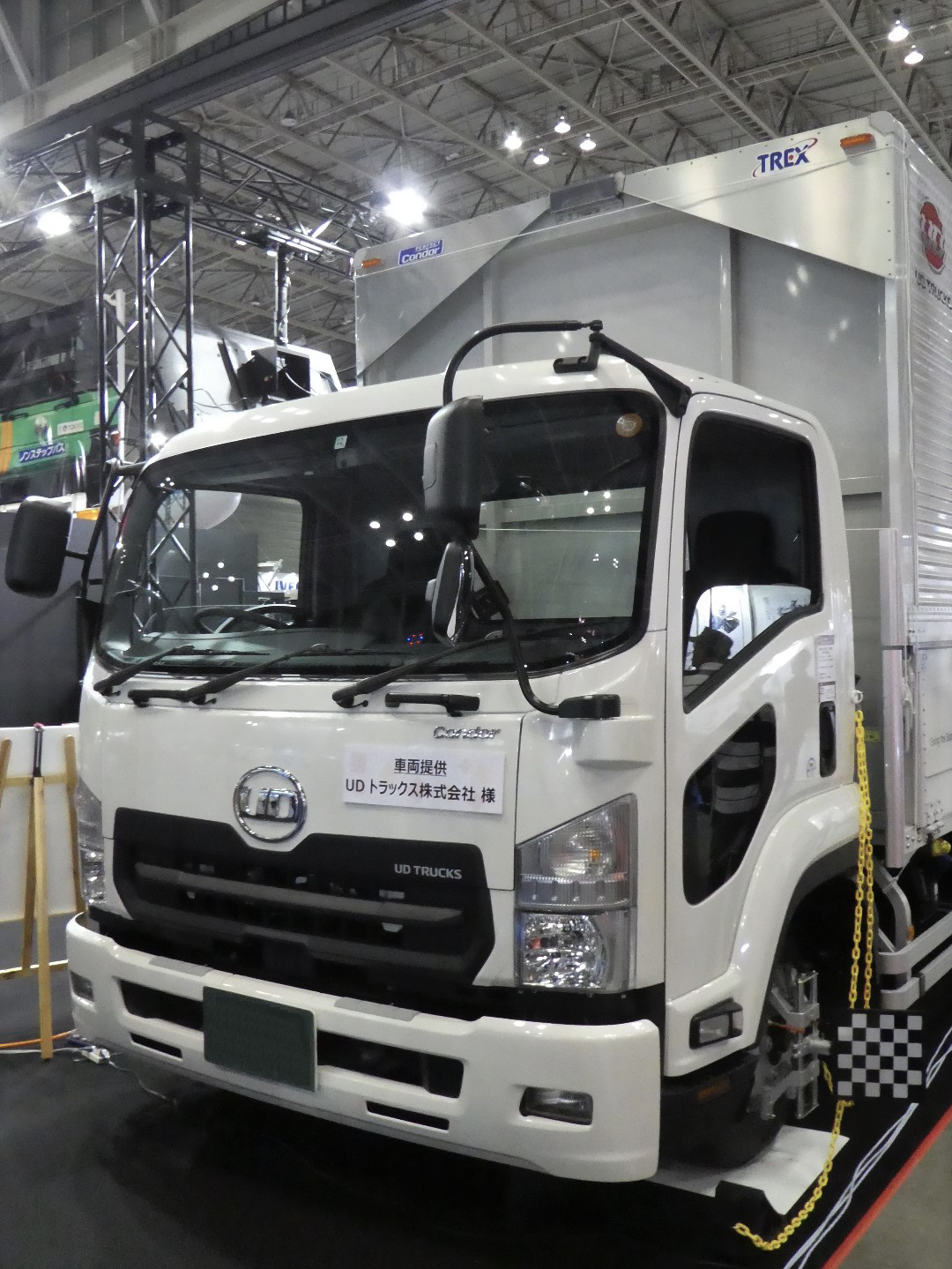 UD Trucks Condor 5th Gen